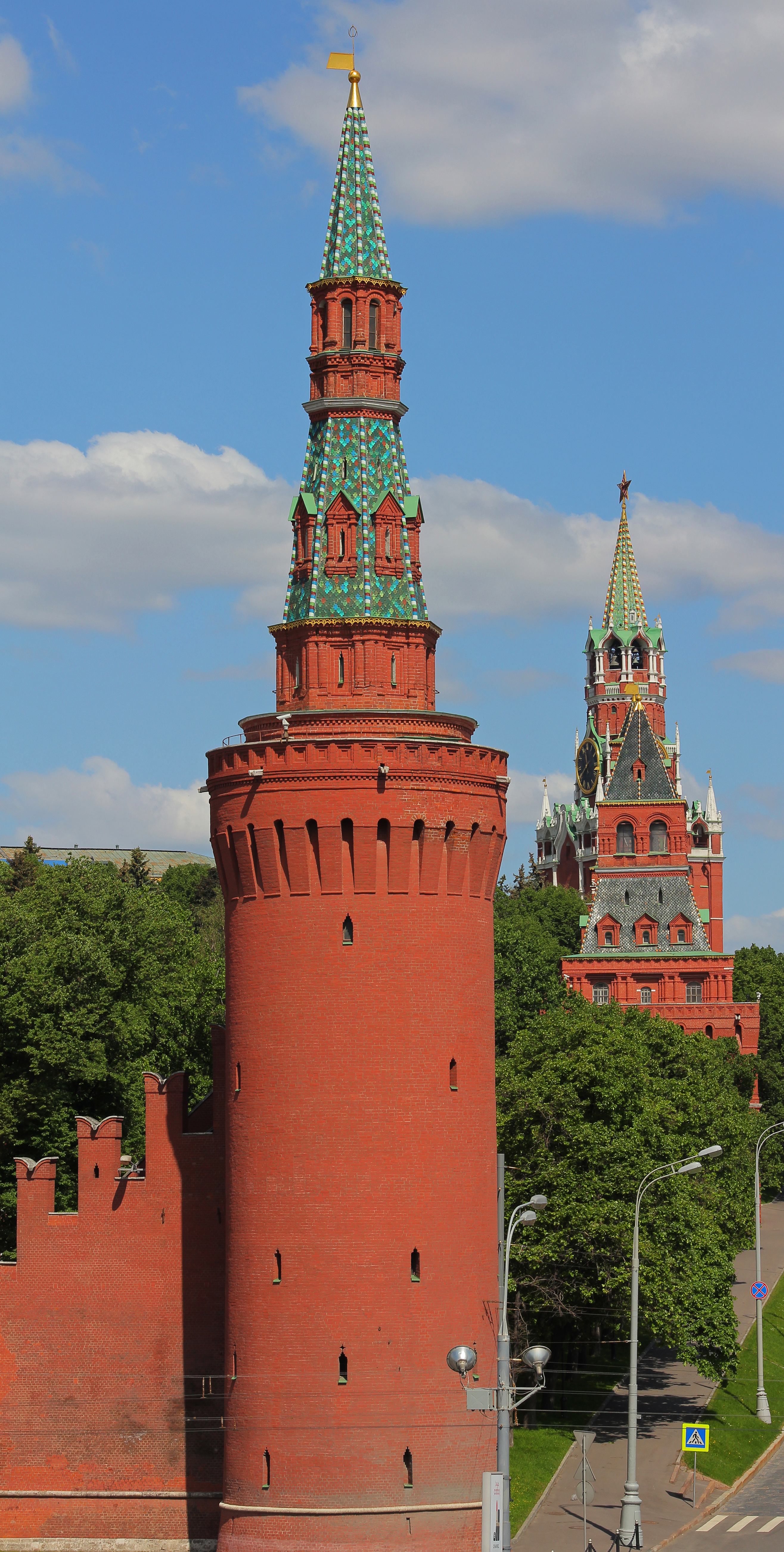 Moscow, Russia. Beklemishev Tower of the Moscow Kremlin.